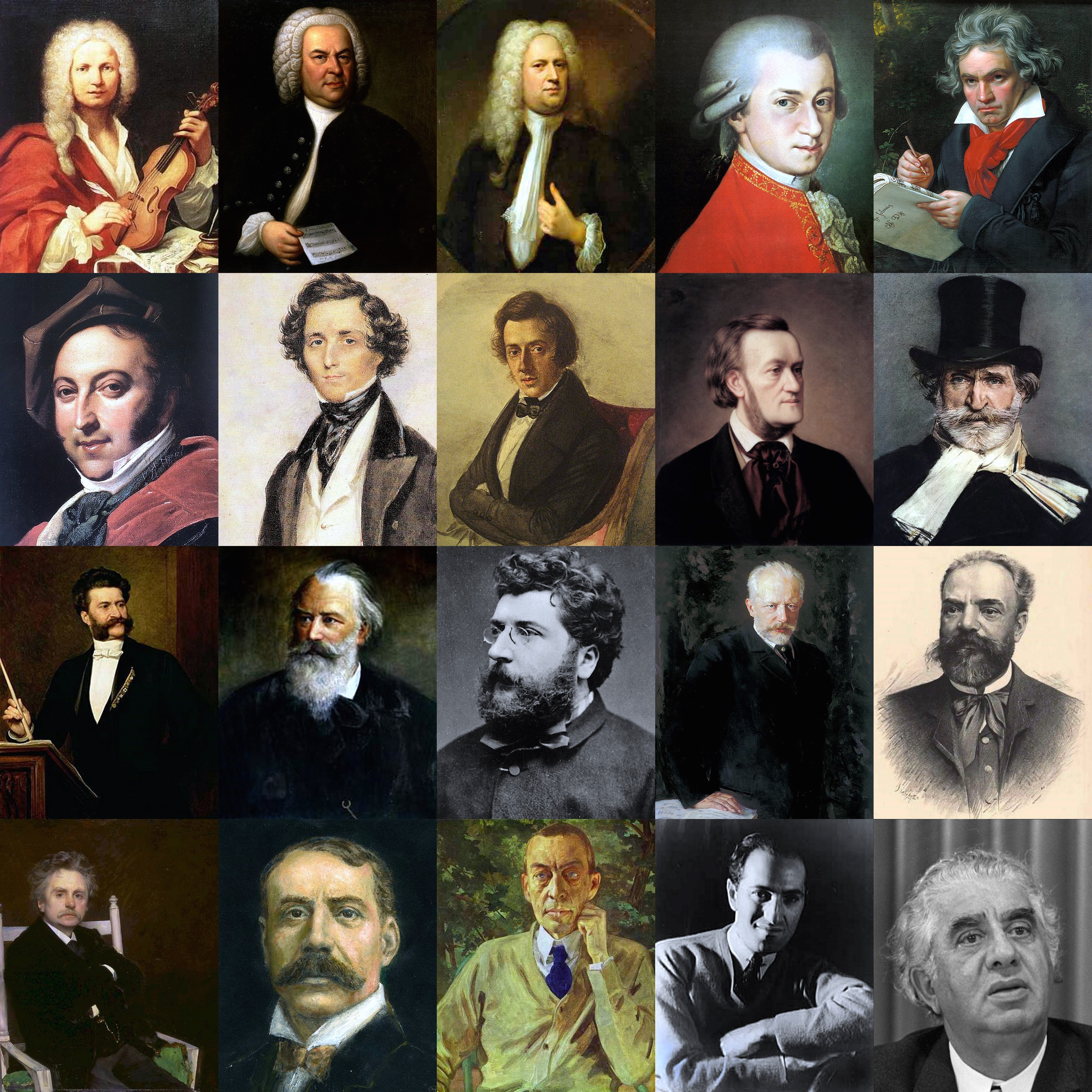 montage of great classical music composers – from left to right:first row: Antonio Vivaldi, Johann Sebastian Bach, Georg Friedrich Händel, Wolfgang Amadeus Mozart, Ludwig van Beethoven;second row: Gioachino Rossini, Felix Mendelssohn, Frédéric Chopin, Richard Wagner, Giuseppe Verdi;third row: Johann Strauss II, Johannes Brahms, Georges Bizet, Pyotr Ilyich Tchaikovsky, Antonín Dvořák;fourth row: Edvard Grieg, Edward Elgar, Sergei Rachmaninoff George Gershwin, Aram Khachaturian